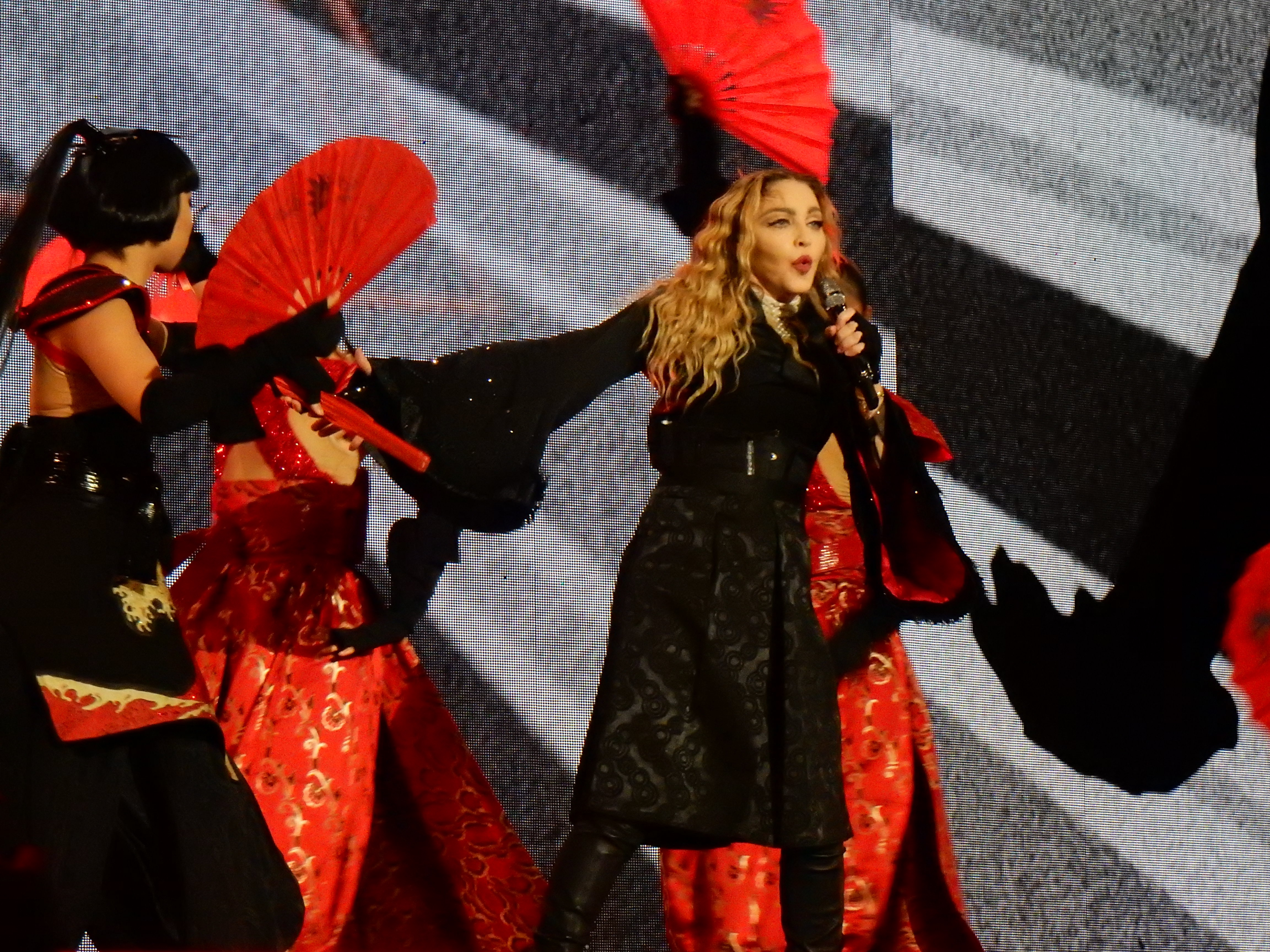 Rebel Heart tour 2016 - Melbourne 1